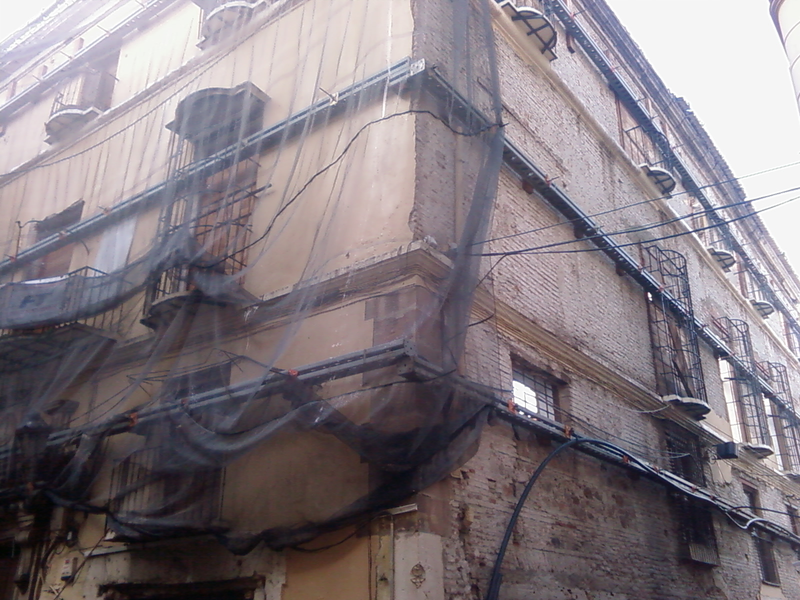 Palace of the Marquis of La Sonora in Granada Street, Málaga, Spain, before restoration. Atribued to Martín de Aldehuela. 1789